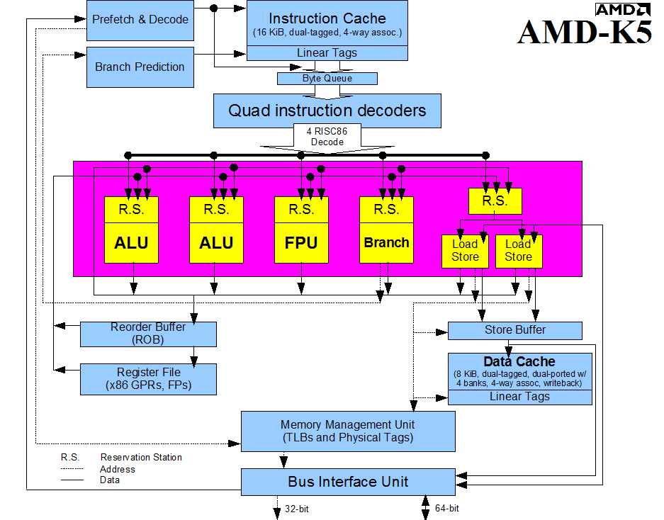 AMD K5 processor diagram. Created by me from online AMD documentation. [1]